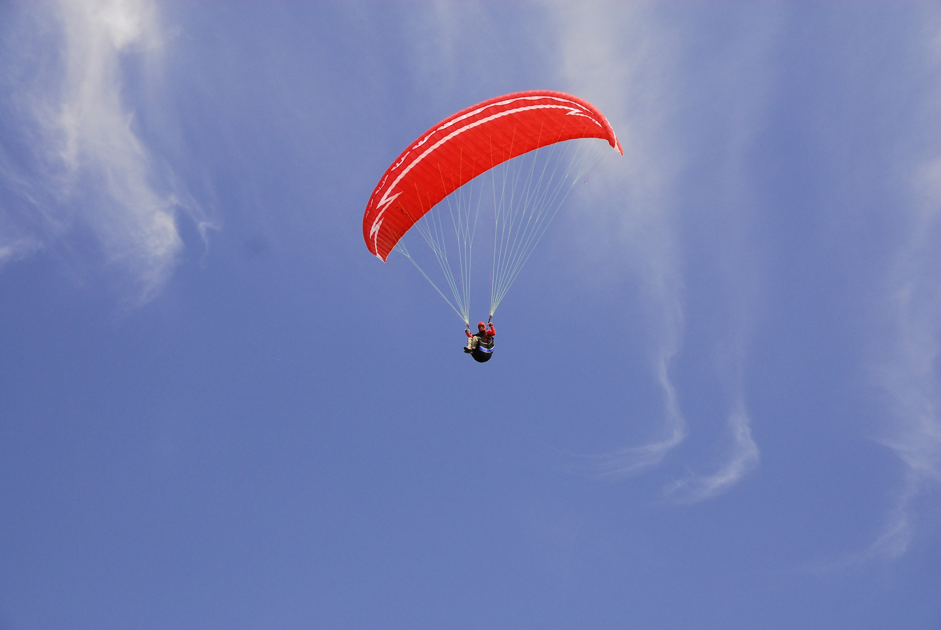 Paraglider: Nova Mentor